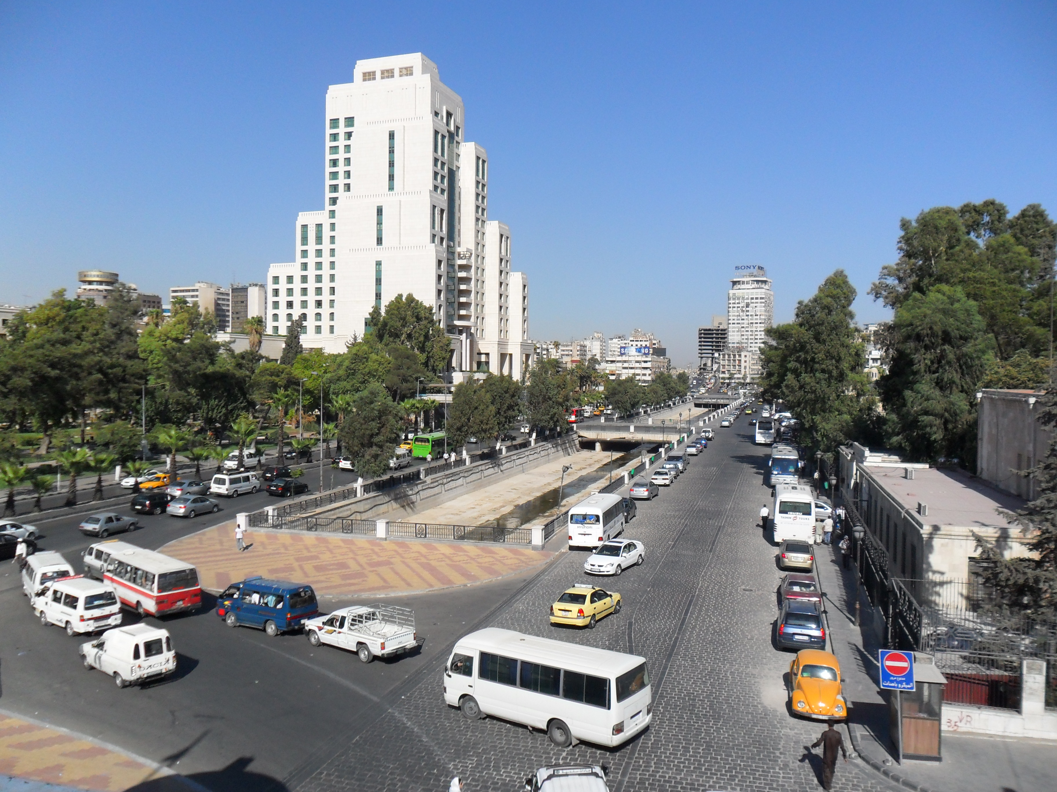 Barada River in Damascus almost totally desiccated in August 2010; in the background the Four Seasons Hotel; the picture was taken from the top of the President's Bridge